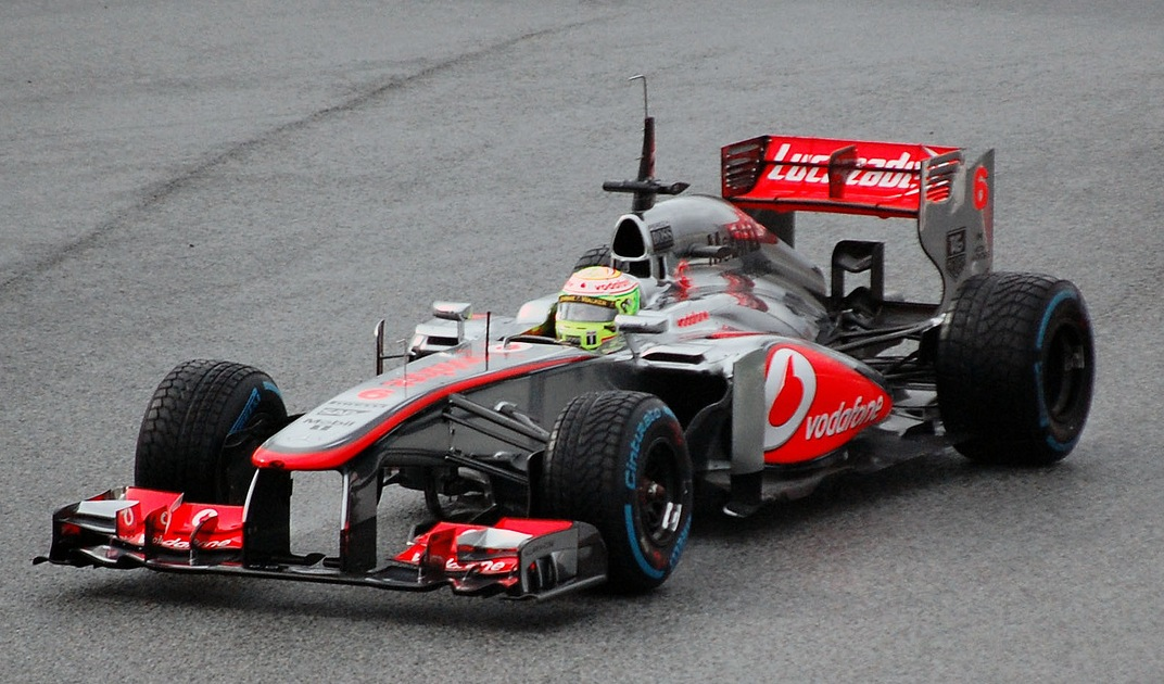 Perez at the first day of the final test 2013